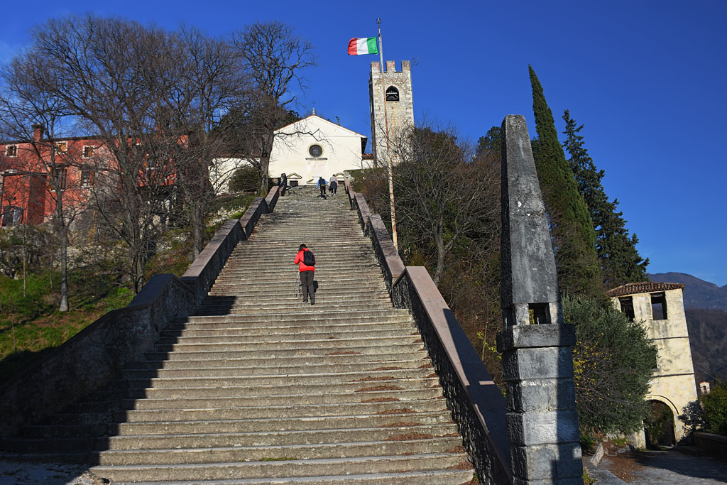 Serravalle, Santa Augusta Sanctuary.